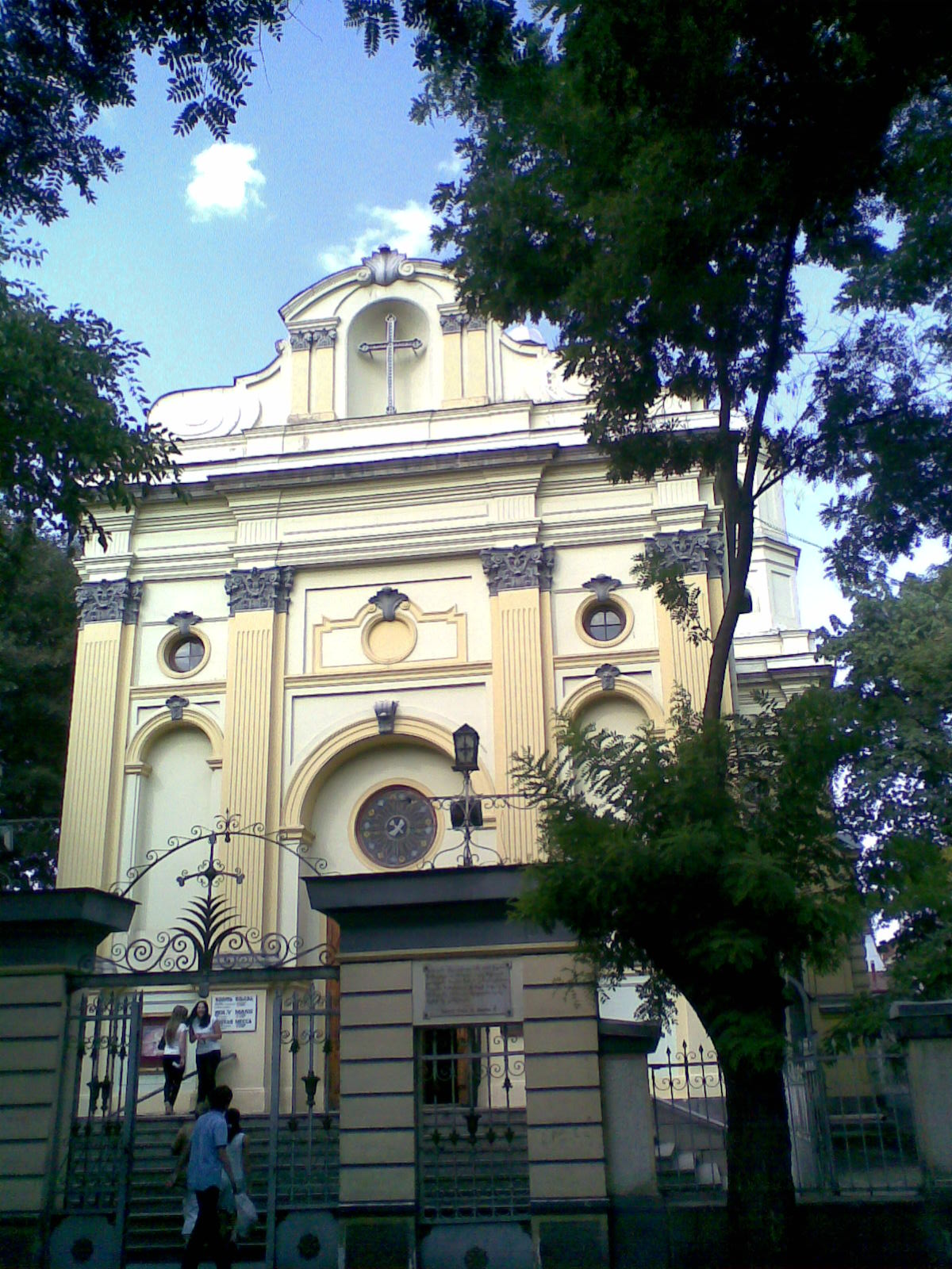 St. Peter and Paul's Roman Catholic Cathedral in 55 Ivane Javakhishvili Street, Tbilisi (built 1870-1877; architect: Albert Zaltsman)